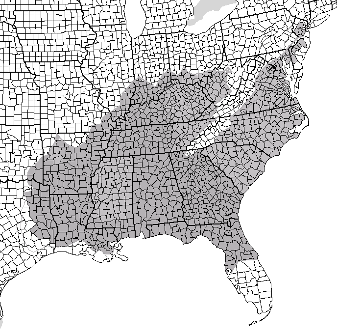 Liquidambar styraciflua. Created using map found on Wikiedia at United States showing all counties. Map was created using US Foresty Service map as model.